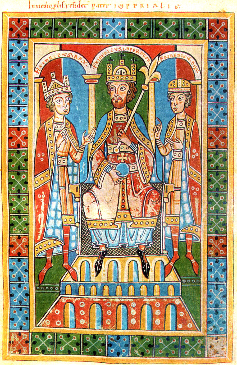 Frederic I Barbarossa and his sons King Henry VI and Duke Frederick VI. Medieval illustration from the Chronic of the Guelphs (Weingarten Abbey, 1179-1191).